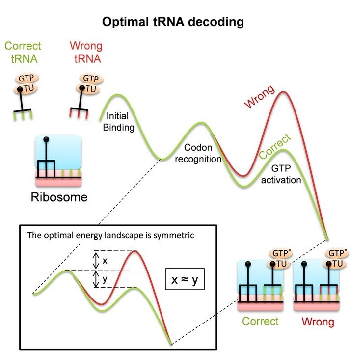 This is a sketch of the conformational proofreading by the ribosome